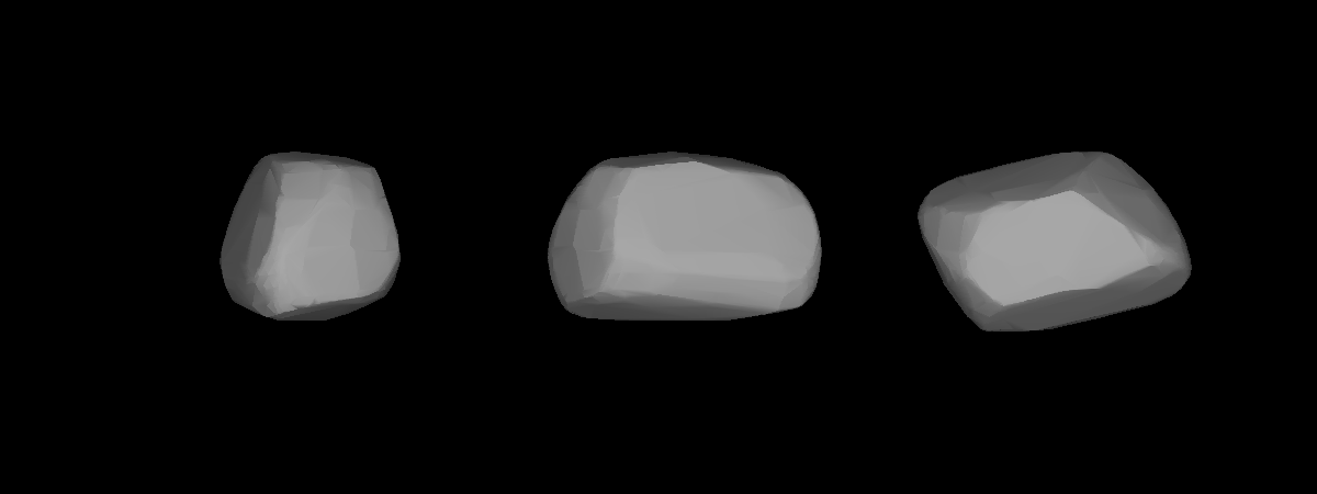 A three-dimensional model of 1188 Gothlandia that was computed using light curve inversion techniques.